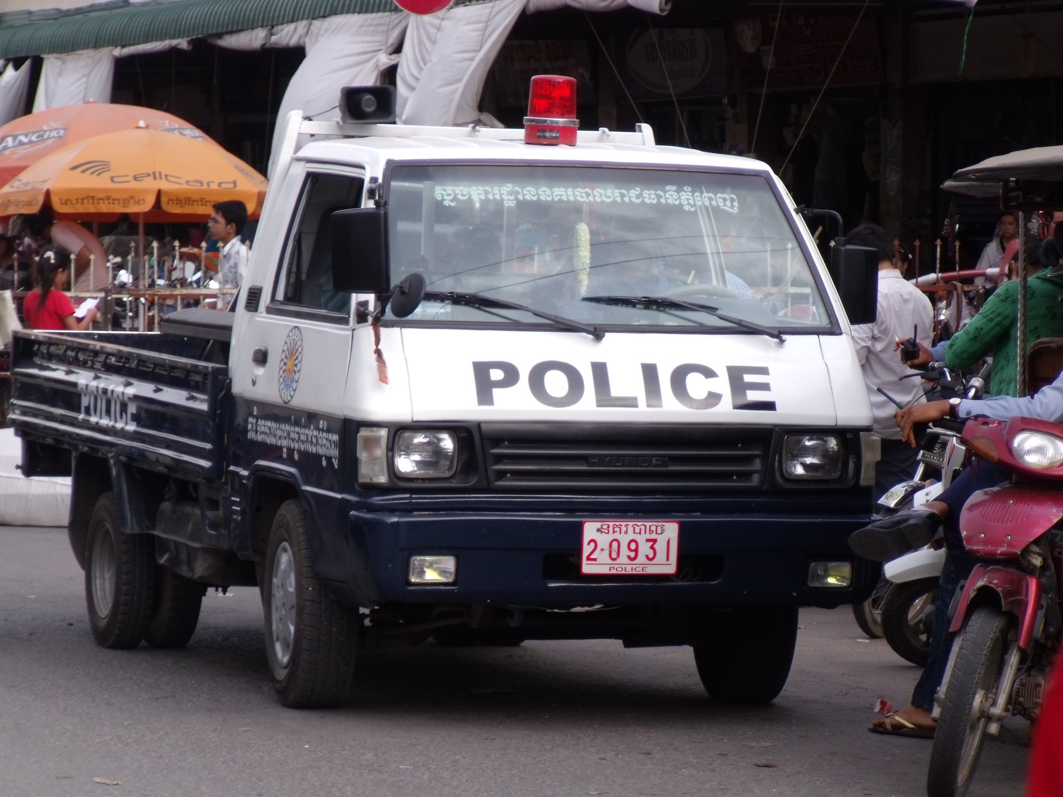 Hyundai Porter pickup of the Cambodian police force.